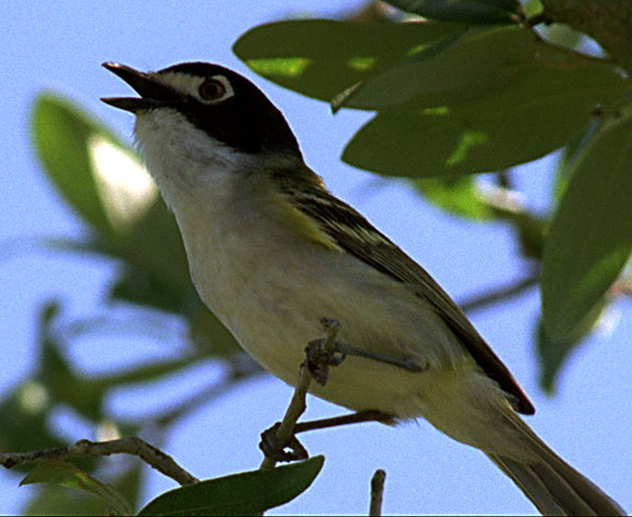 Black-capped Vireo, Vireo atricapillus, Male, singing, near Kerrville, Texas